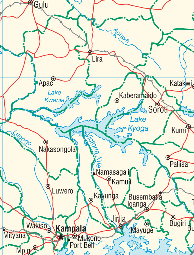 Map of central Uganda. Derivative of CIA map